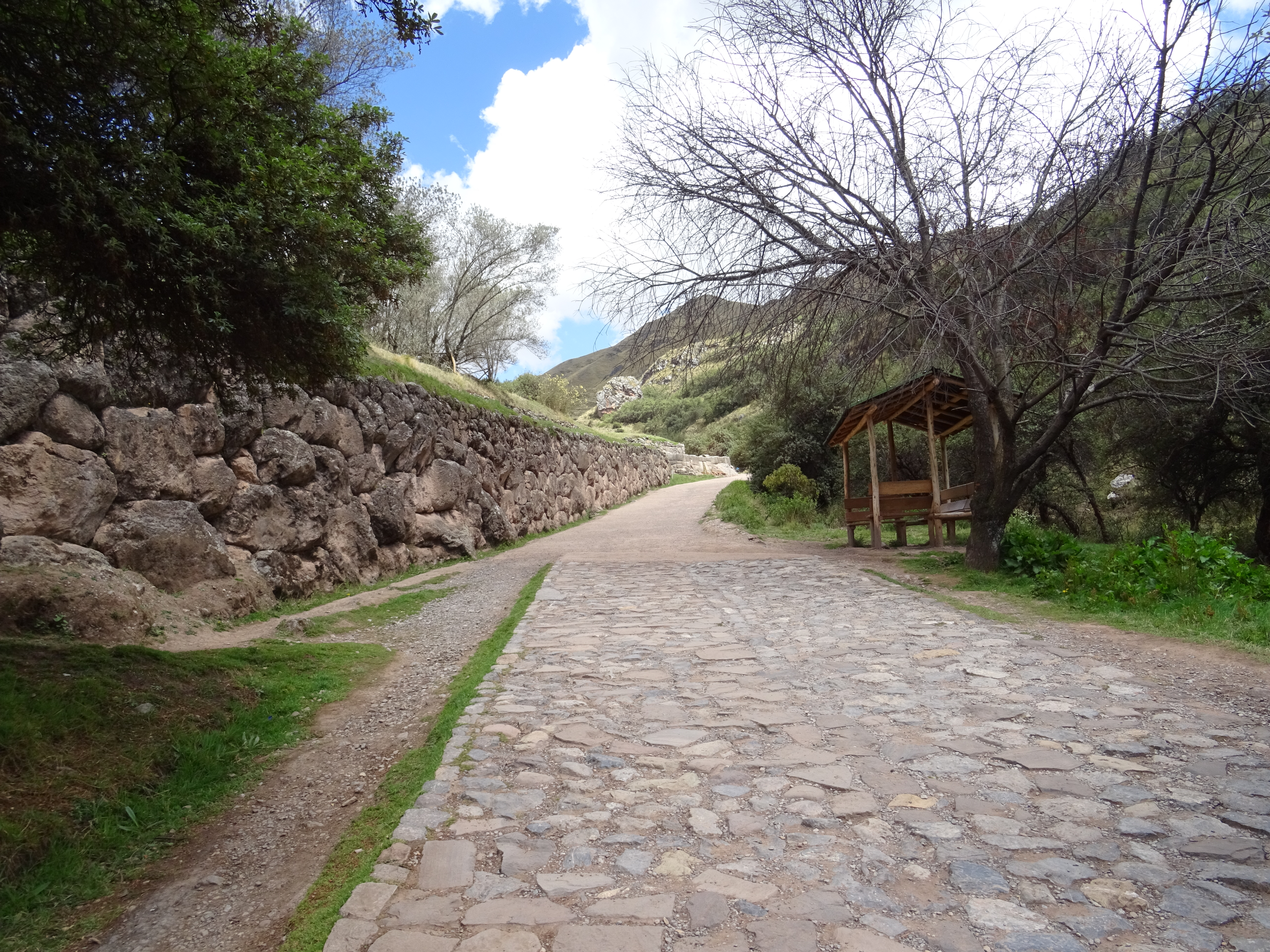 Access road to tambomachay temple